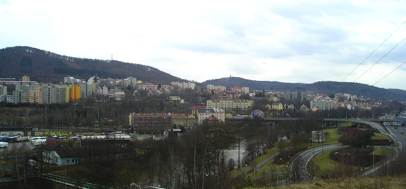 Karlovy Vary - Drahovice